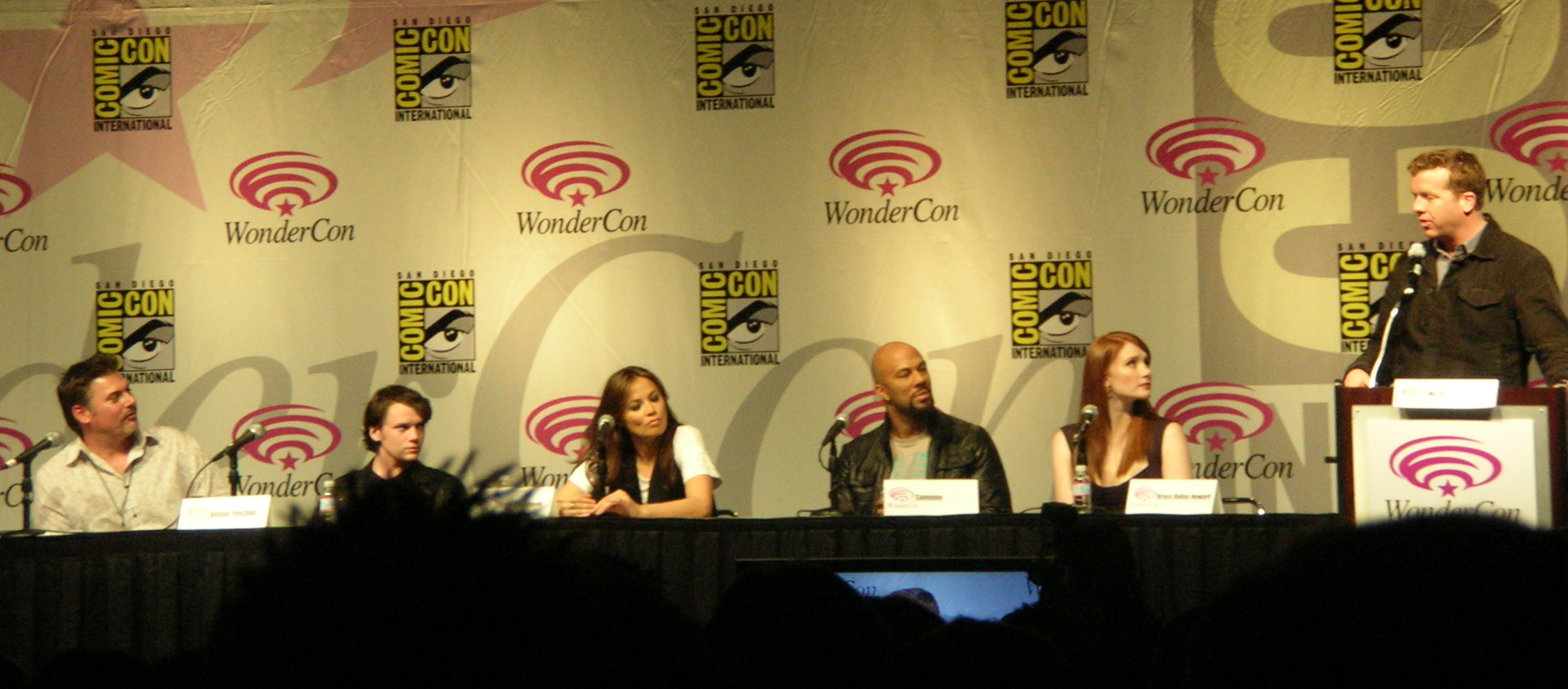 A Terminator Salvation panel discussion at WonderCon 2009. From left to right: LA Times reporter Geoff Boucher, actors Anton Yelchin, Moon Bloodgood, Common, Bryce Dallas Howard, and director McG.